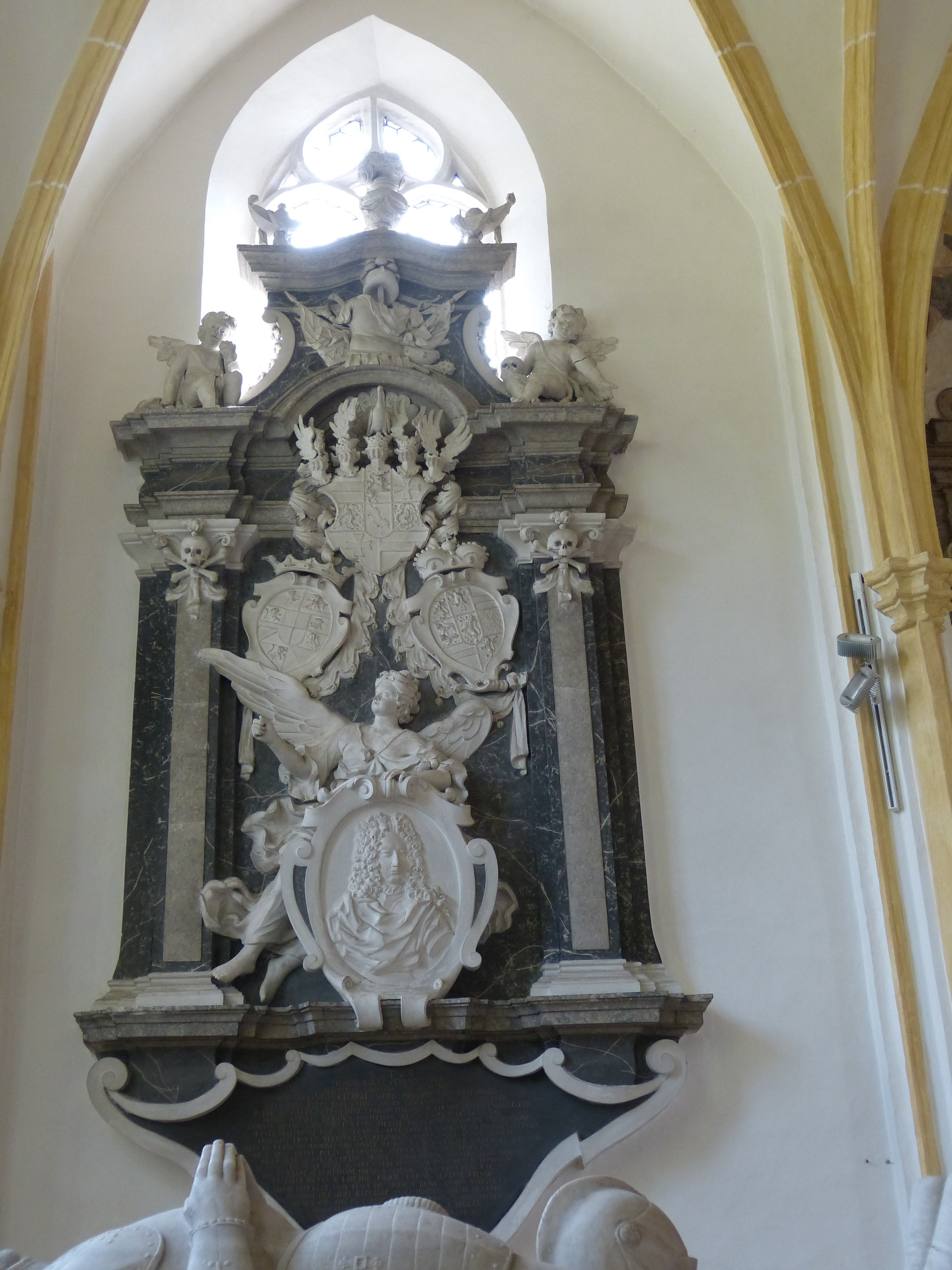 Ortenburg ( Lower Bavaria ). Parish church ( 16th century ) - Epitaph for Johann Georg von Ortenburg ( + 1725 ).